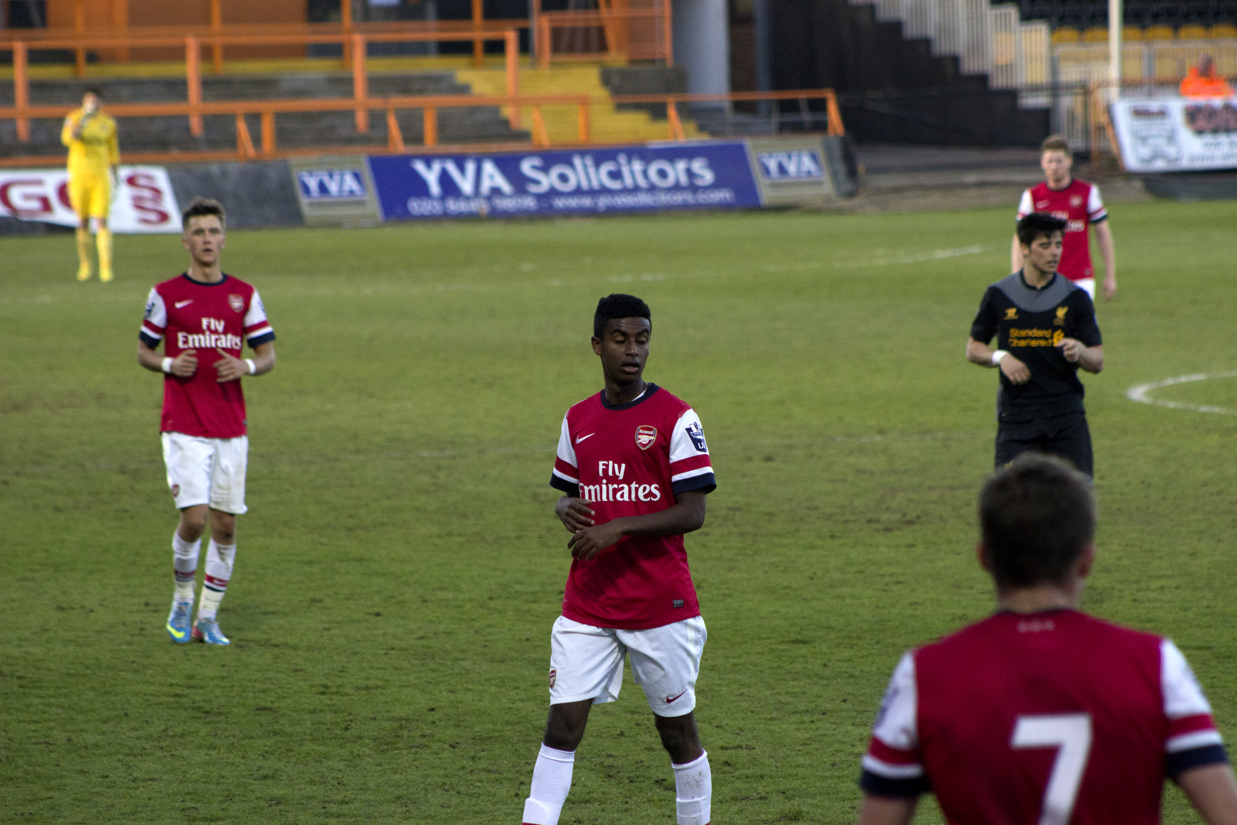 Gedion Zelalem playing for Arsenal u-21